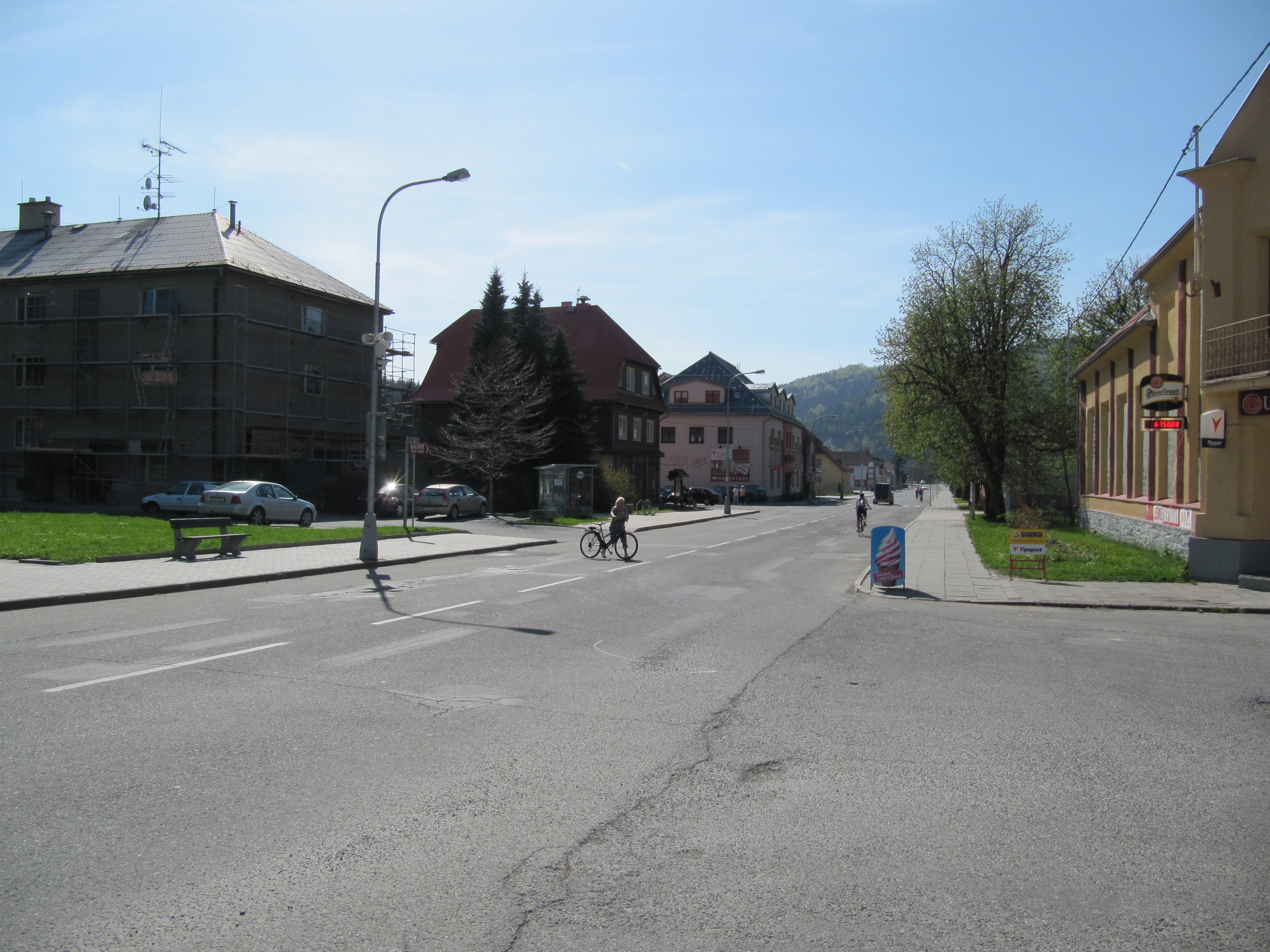 Karolinka, Vsetín District, Czech Republic.